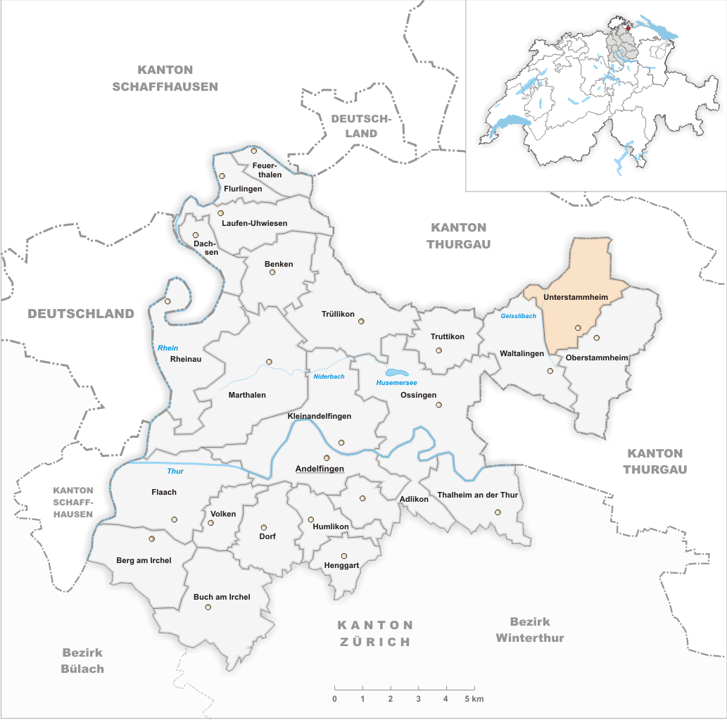 Municipality Unterstammheim